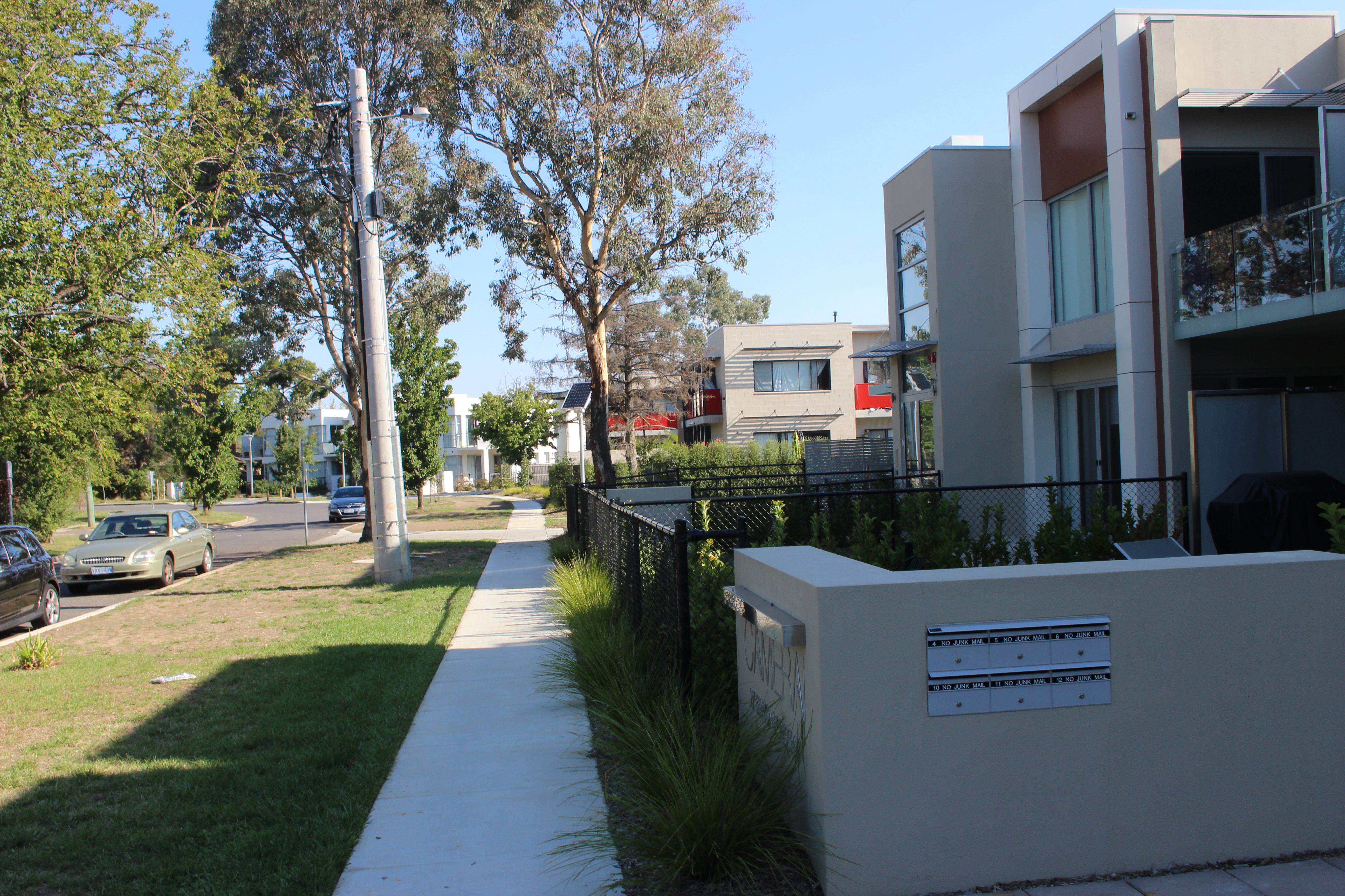 New units in O'Connor